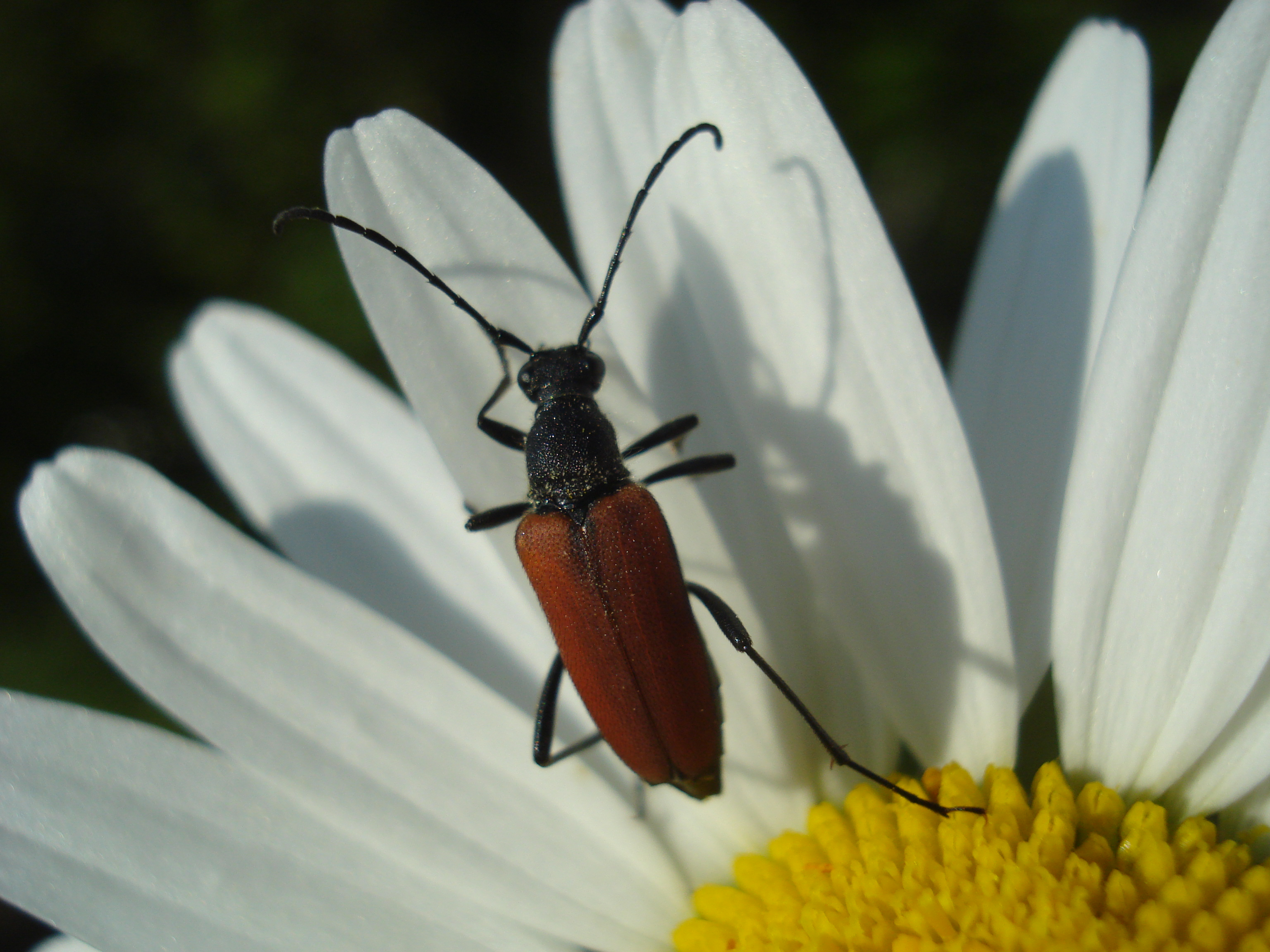 Female Anastrangalia sanguinolenta on Leucanthemum vulgare